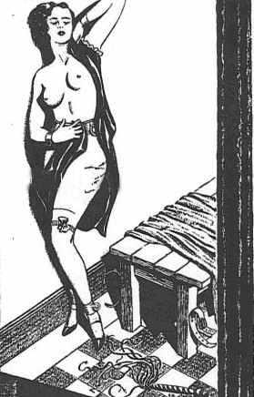 Image of sado-masochism